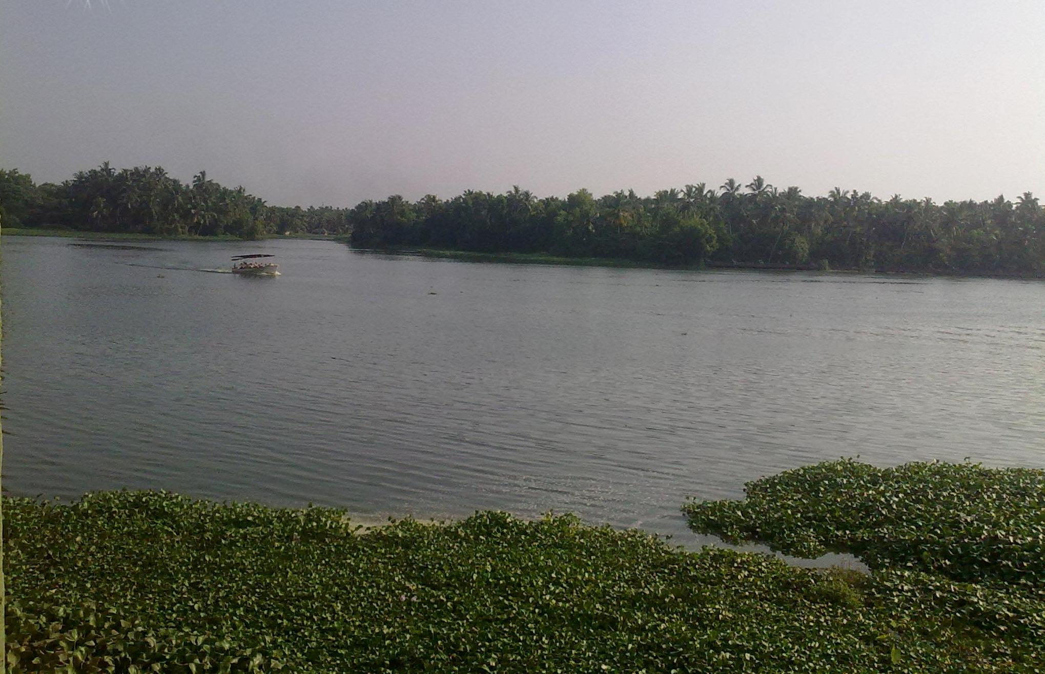 Aakkulam Lake, Kerela